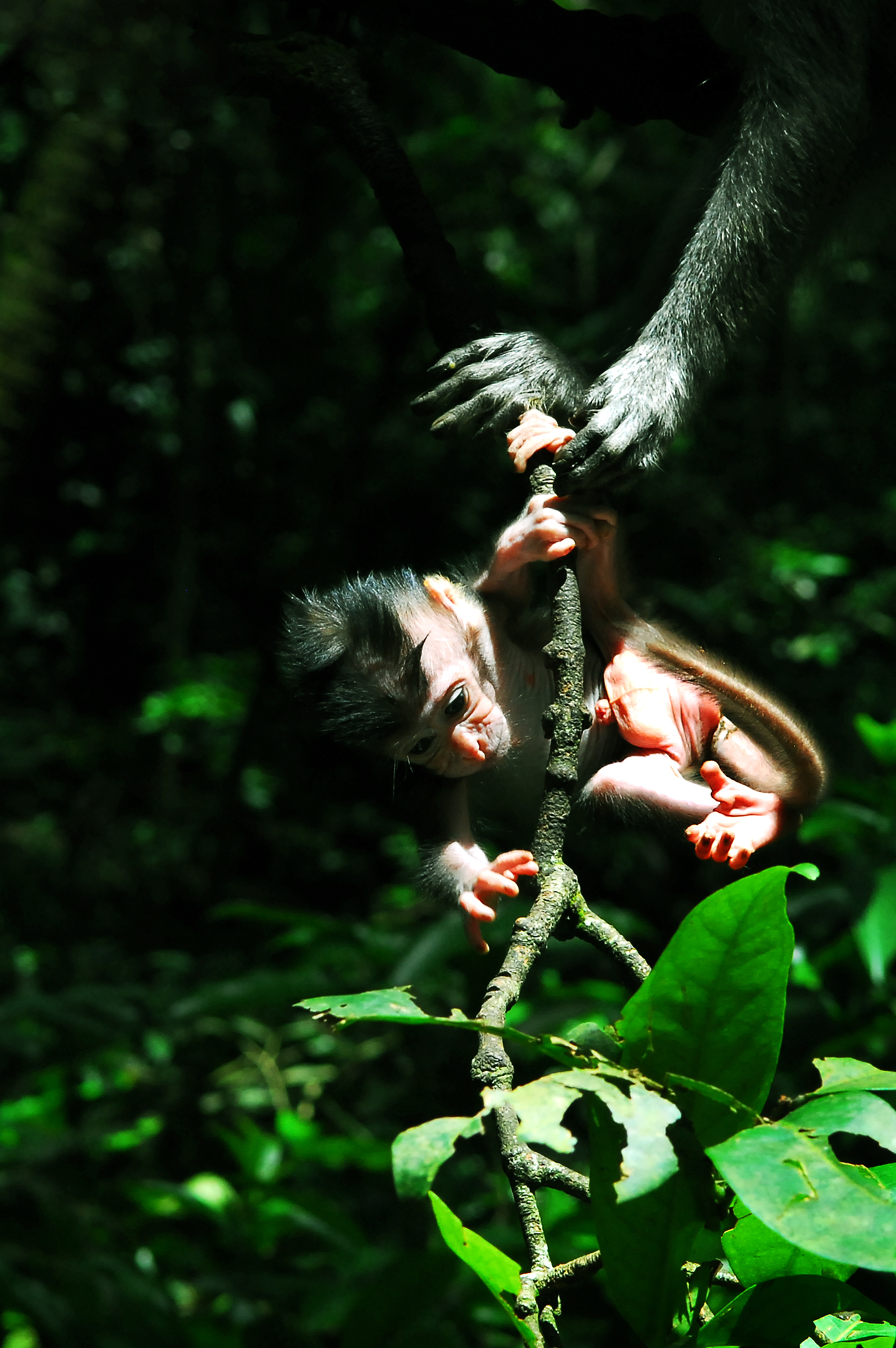 A Macaca fascicularis hand helping a Macaca fascicularis baby in Bali, Indonesia.